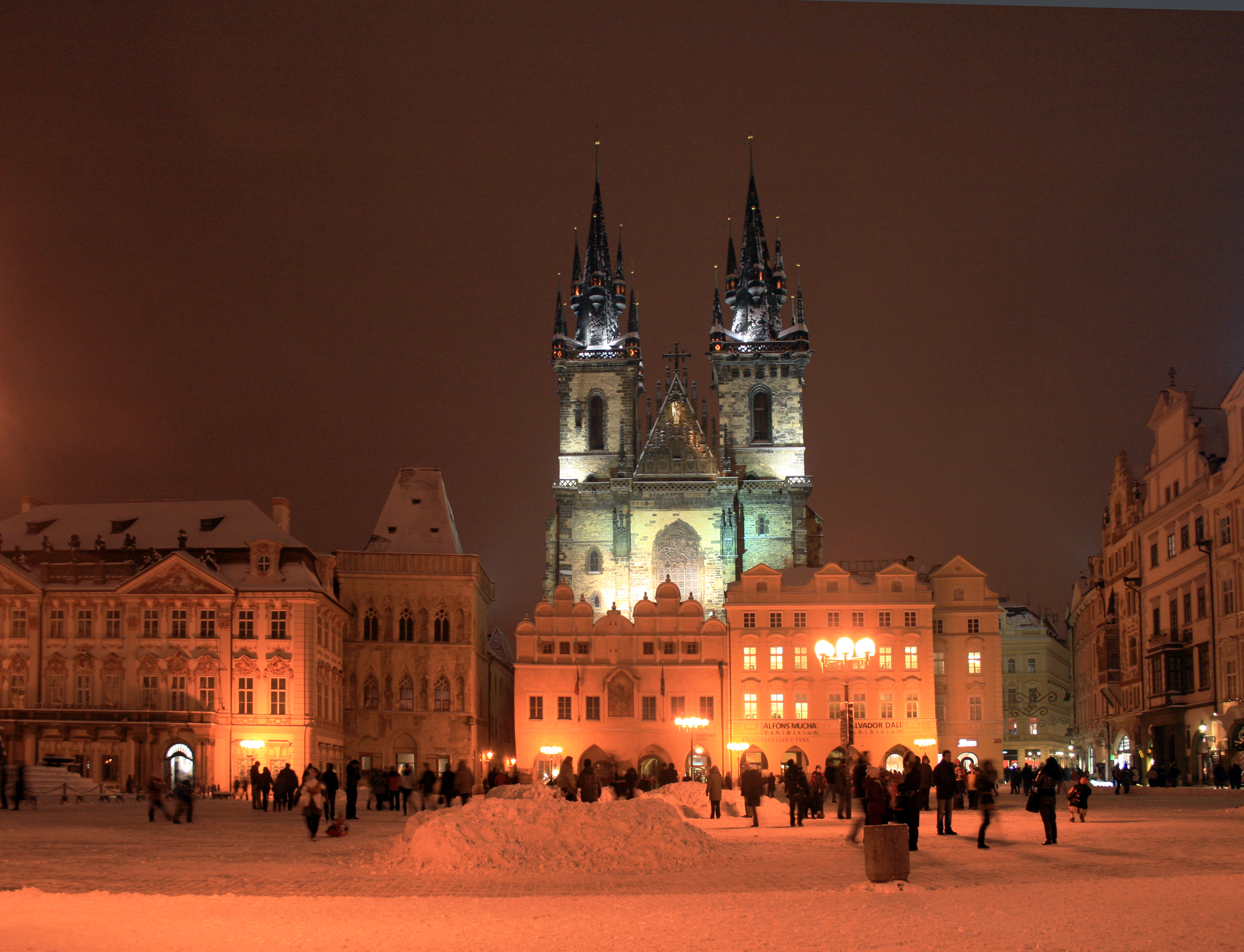 Old Town Square with Church of Our Lady in front of Týn in Prague under snow, winter 2010